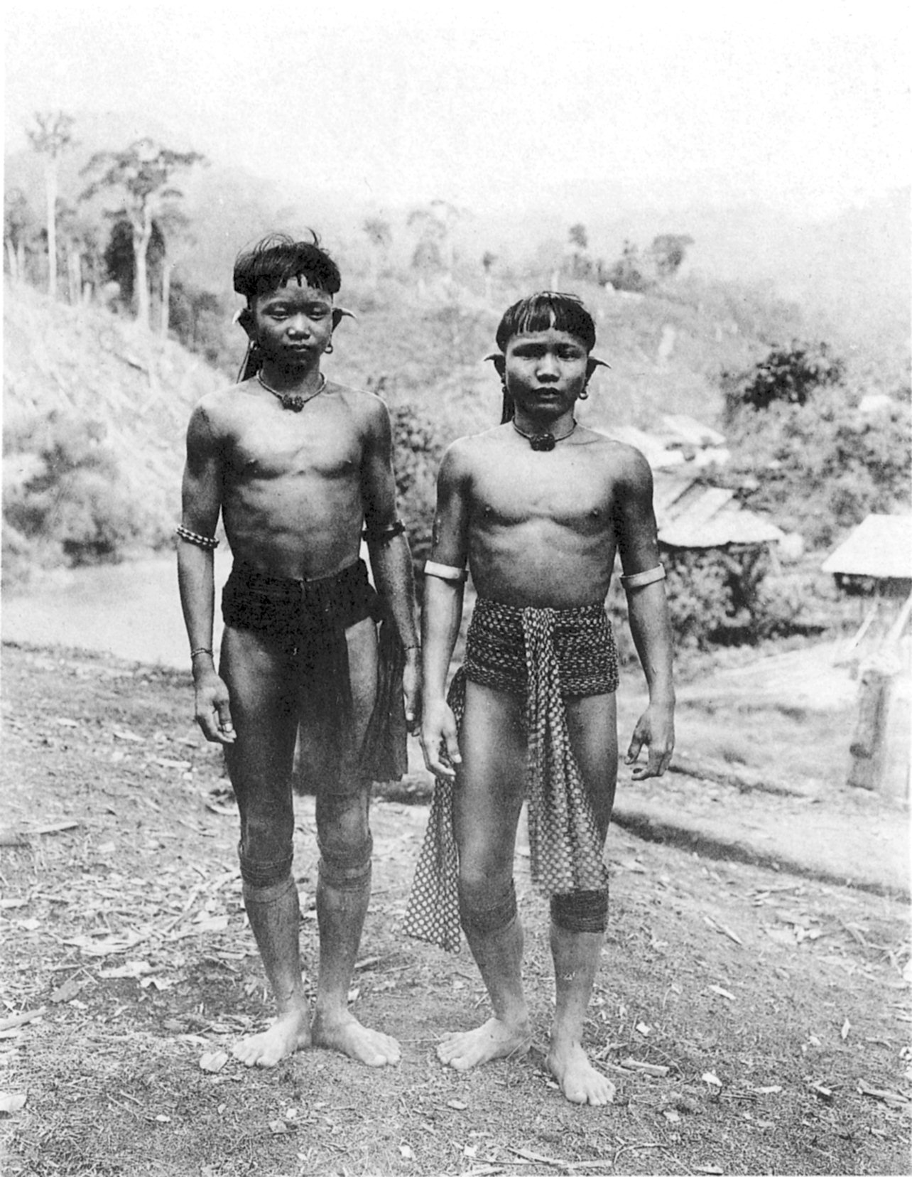 Lirong (Klemantan) youths of Tinjar river.